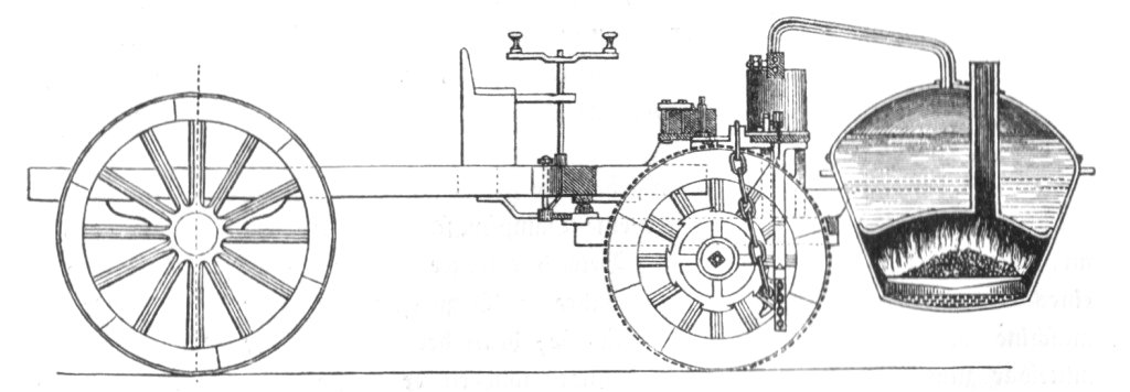 Nicolas-Joseph Cugnot´s self-propelled mechanical vehicle